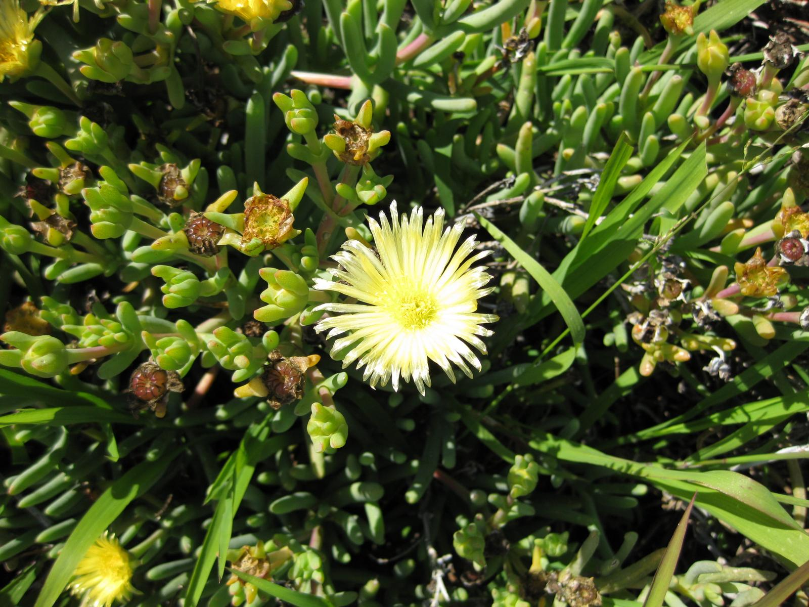 Photographed at Huntington Gardens (Los Angeles, California) in March